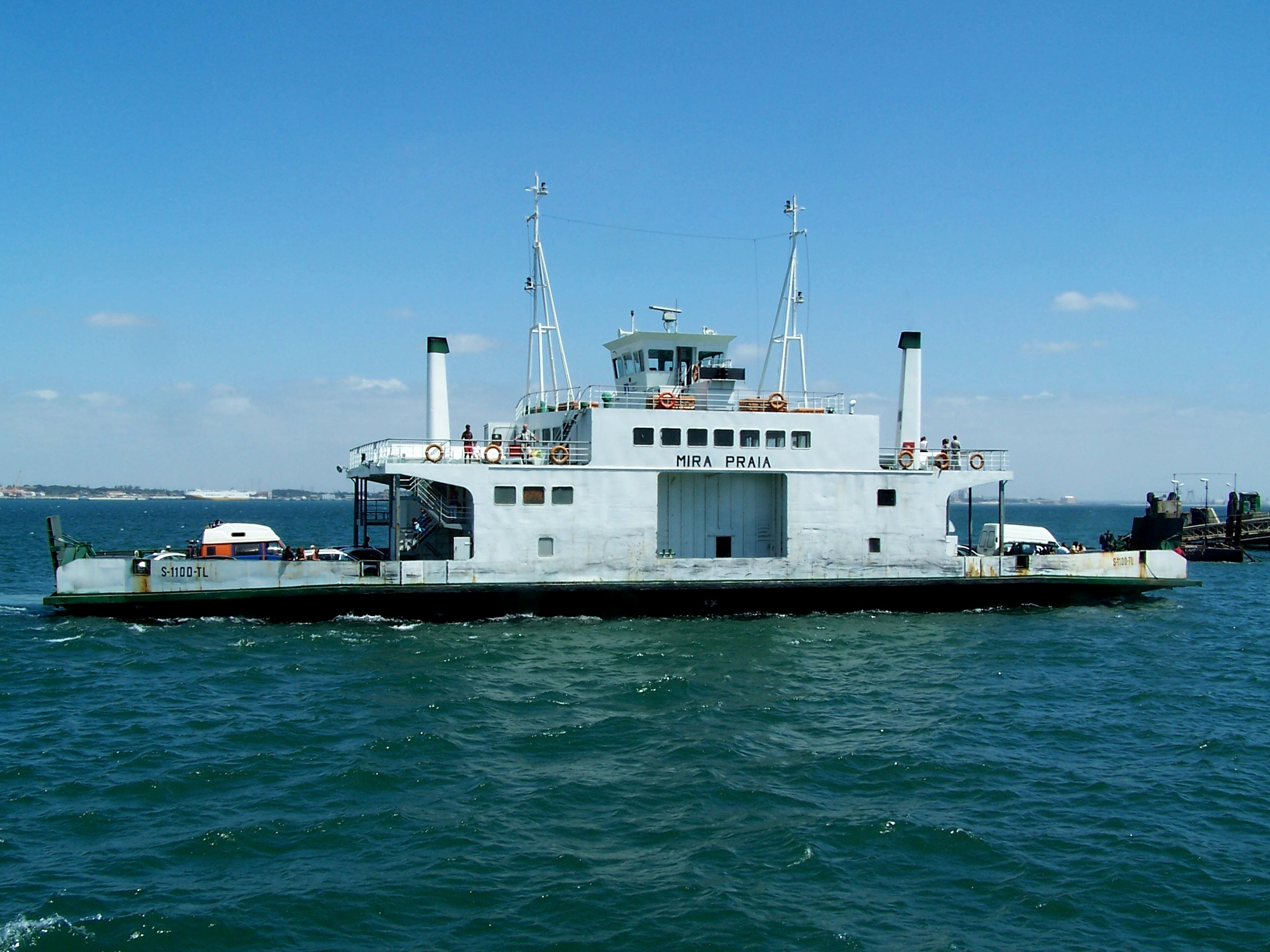 Ferry-Boat de Setúbal-Tróia - Setúbal. Name: Mira Praia Setúbal is a city and a municipality in Portugal with a total area of 172.0 km² and a total population of 118,696 inhabitants in the municipality. The city proper has 89,303[1] inhabitants. The municipality is composed of 8 parishes, and is located in the district of Setúbal.